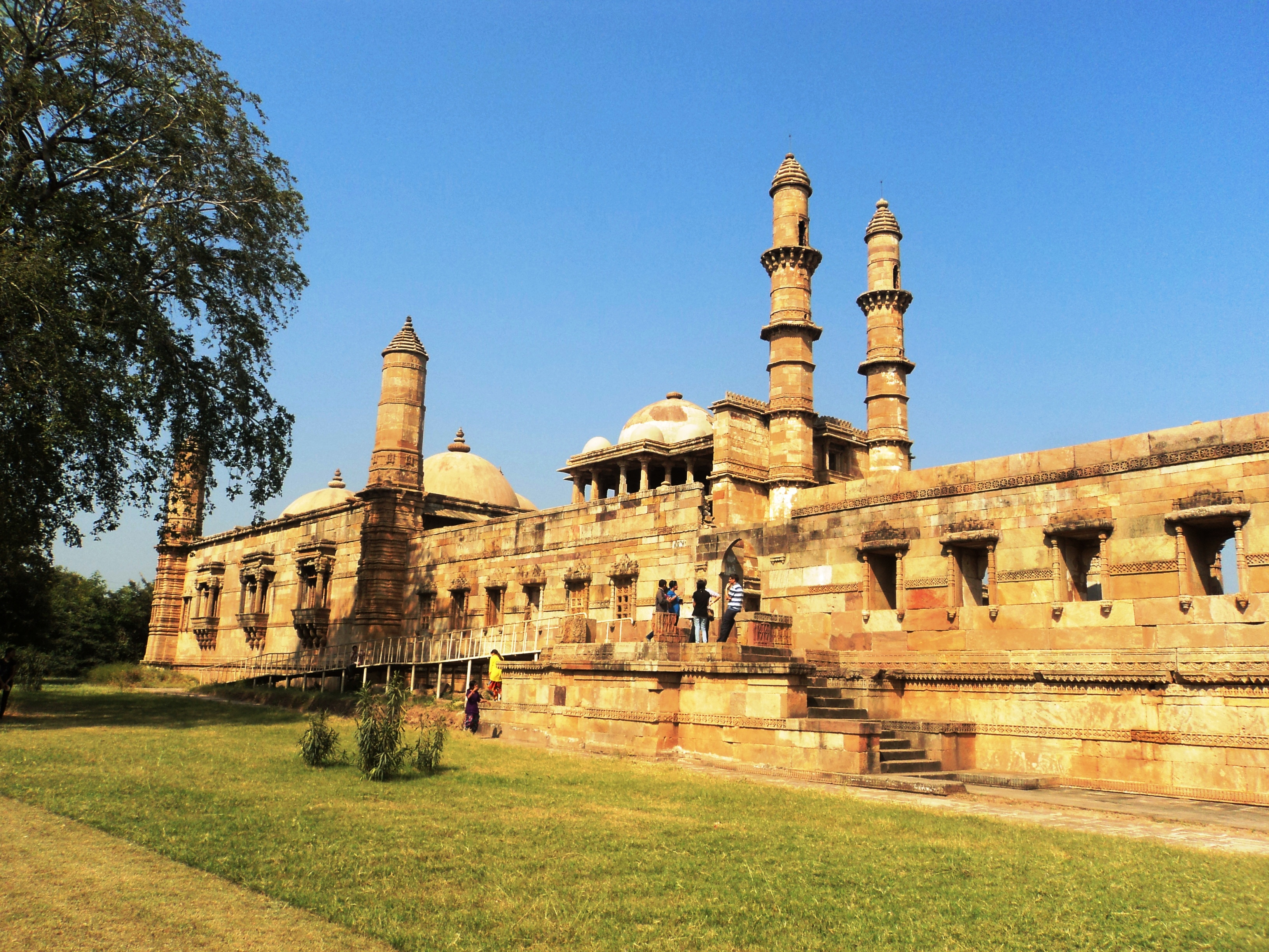 The mosque dates to 1513 and was constructed over a period of 125 years. It ranks among the finest architectural edifices in Gujarat. It is an imposing structure with a central dome, two imposing minarets which are 33 meters in height, 172 pillars and carved entrance gates.